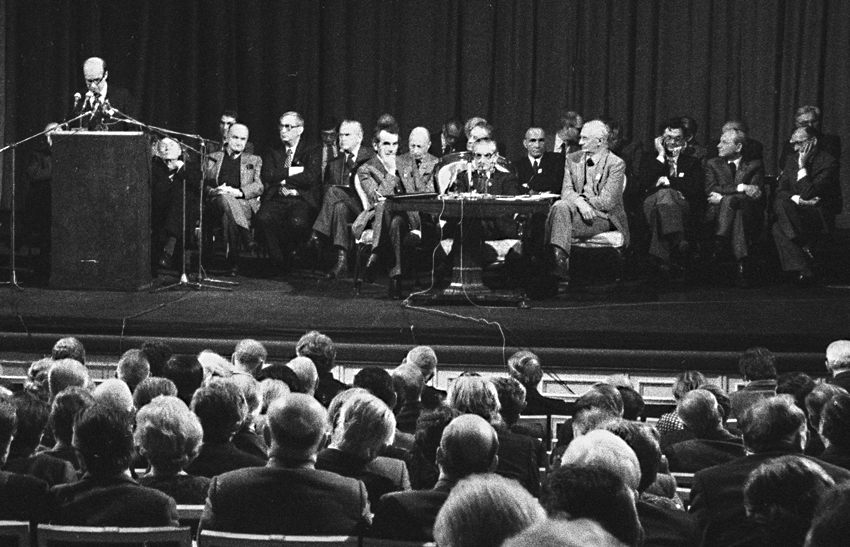 Andrzej Kijowski speking during the congres of polish culture - 1981